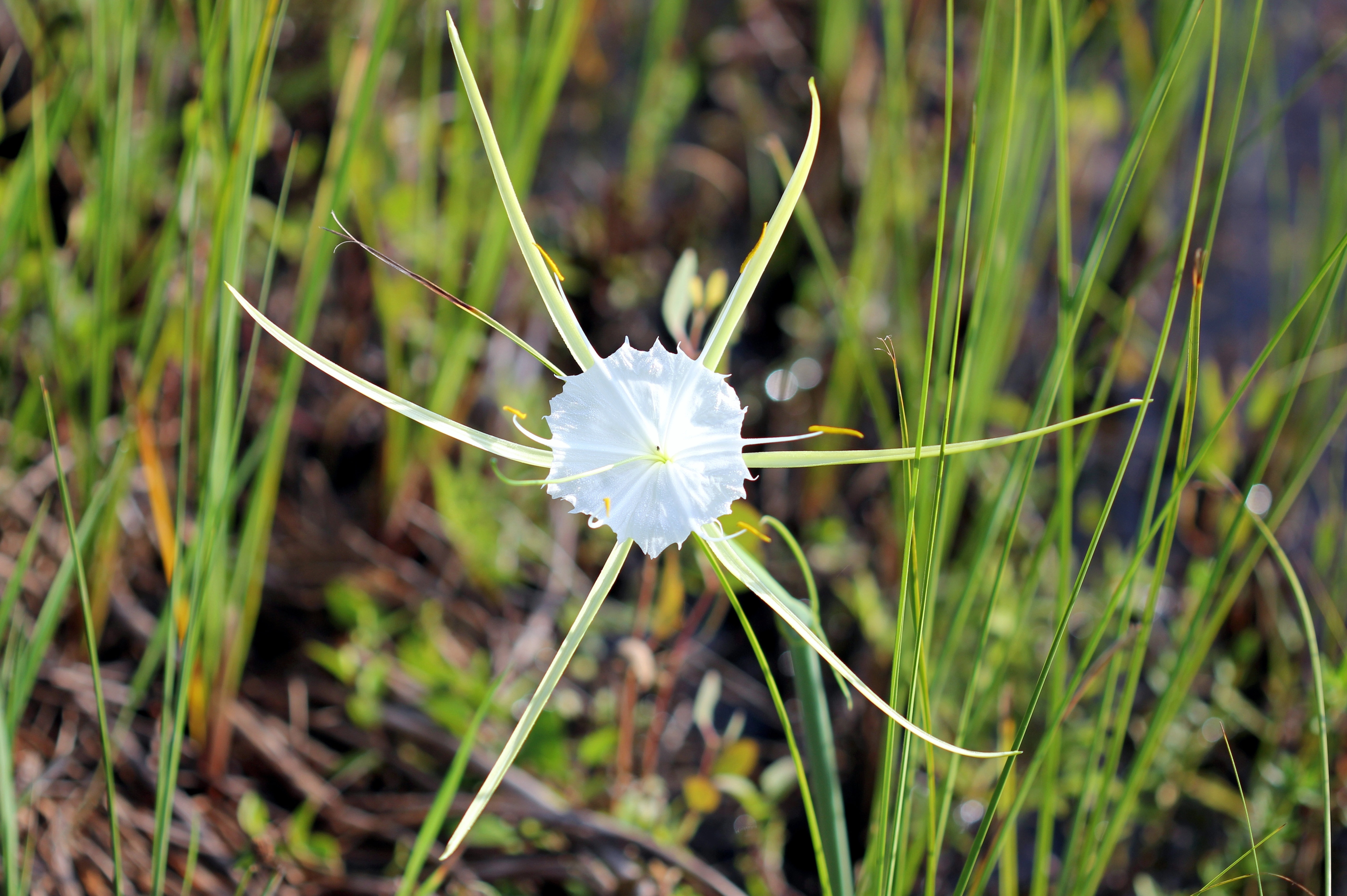 FLOWERS of Hymenocallis palmeri in Florida